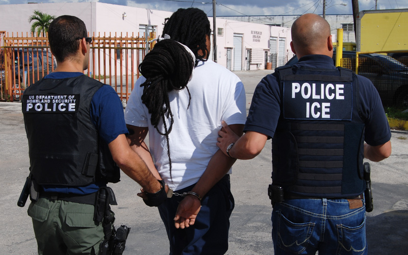 This photo comes from the second national wave of Operation Cross Check, an effort by ICE to arrest and deport undocumented immigrants with criminal records. Over 2,900 people were arrested and 18 weapons were confiscated. ( Press release], September 28, 2011.)